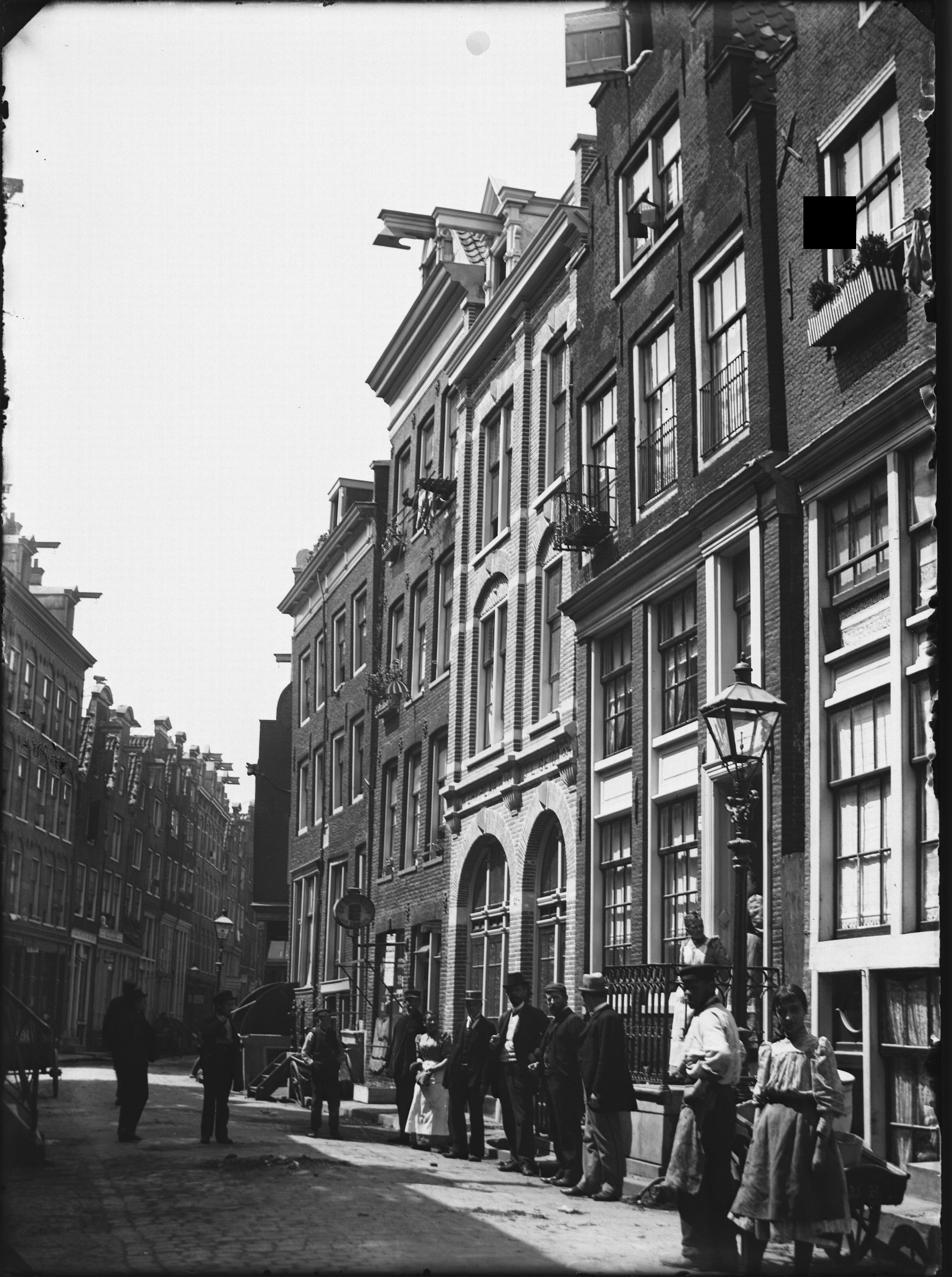 A photograph of the Kleine Kattenburgerstraat in Amsterdam, 1894